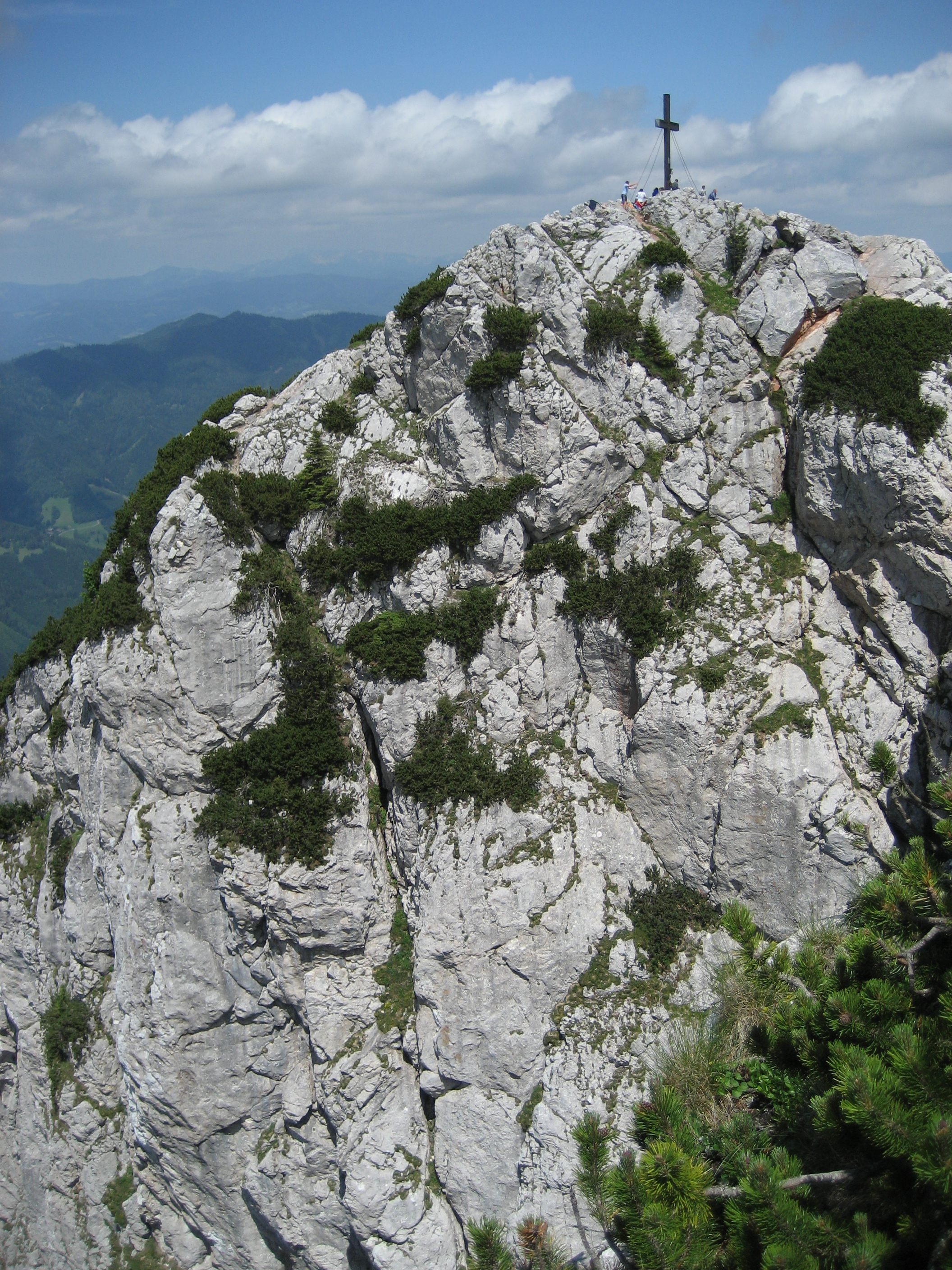 Mount Hochlantsch in Styria, Austria